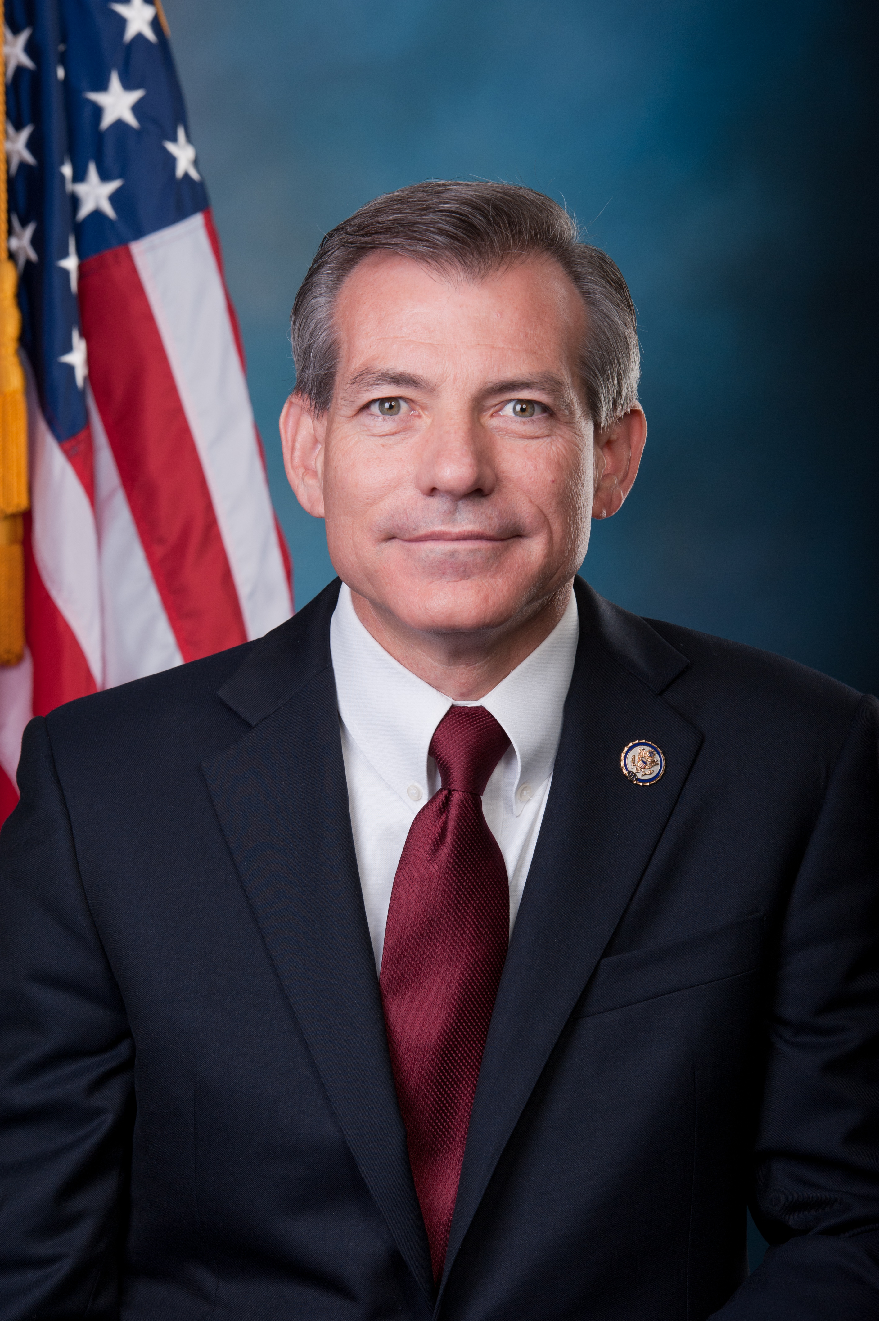 David Schweikert